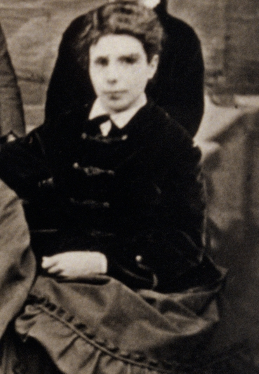 Anna Ettlinger (1841-1934), Karlsruhe-born lecturer, critic and feminist reformer (Detail from a group portrait of women friends and relatives)